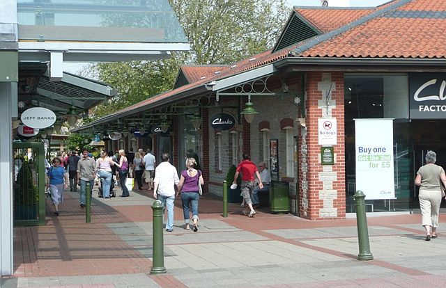 Clark's Village entrance, Street, Somerset